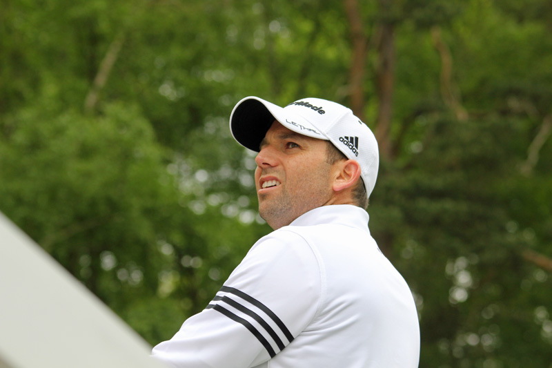 Golfer Sergio Garcia at the 2013 BMW PGA Championship